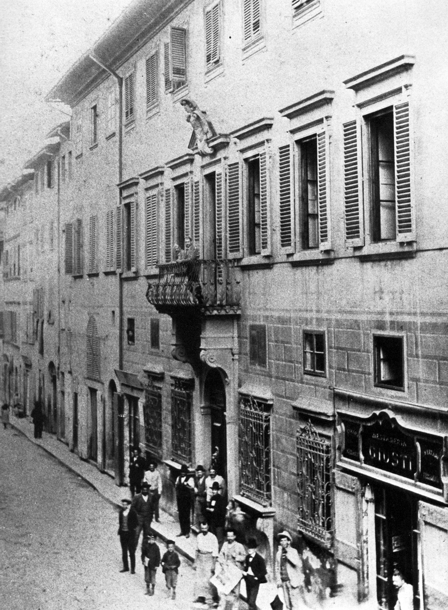 Palazzo Soldani Benzi in Montevarchi, where the Master died on 1740